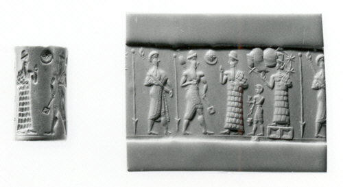 Cylinder seal, ca. 1820–1730 B.C. Old Syrian